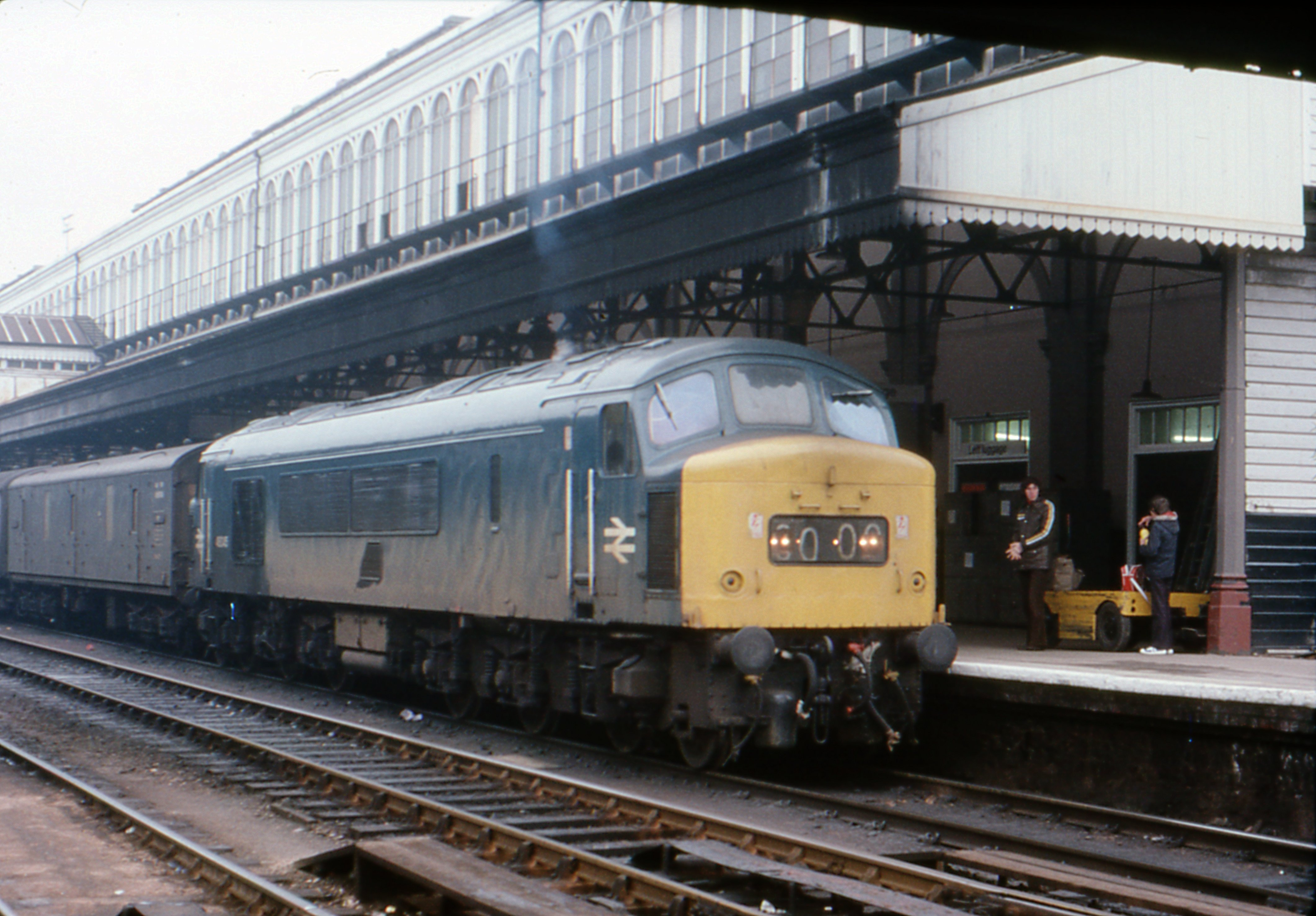 A class 46 type 4 diesel locomotive (looks to be 46045) at the head of an express from the Midlands and the north calls at Exeter St. Davids on its way to the Duchy. Camera: Olympus Pen F Half Frame SLR.